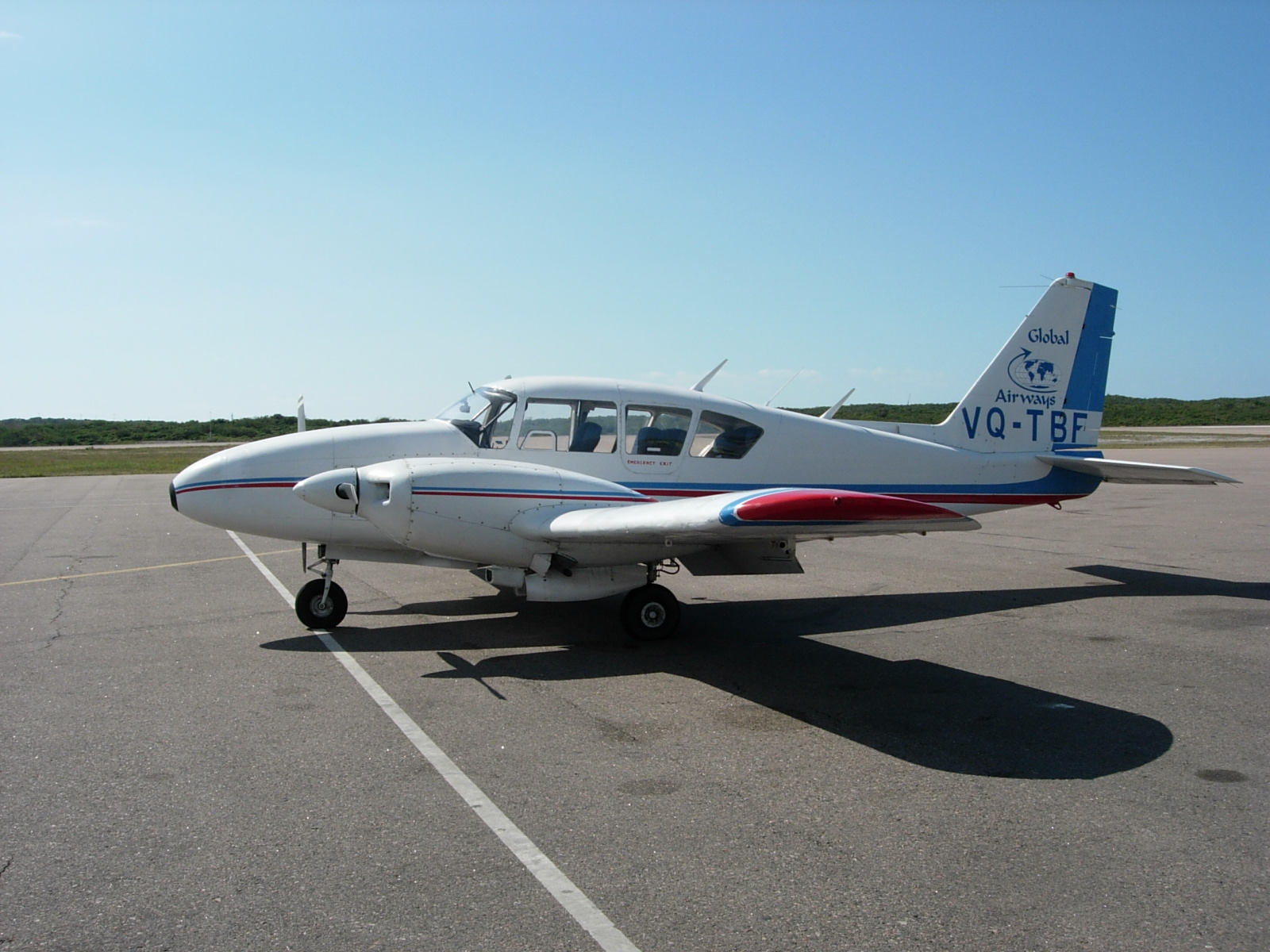 Piper Aztec 'VQ-TBF' operated by Global Airways at Providenciales International Airport in the Turks & Caicos islands